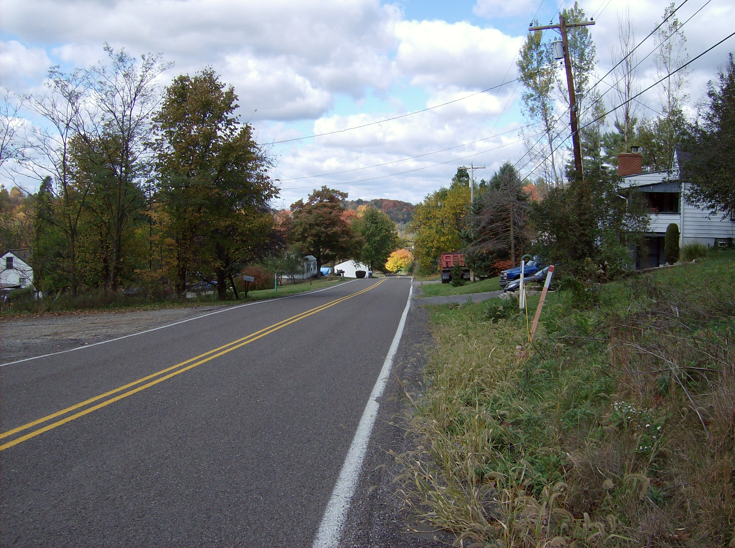 Northwest along Manchester Hill Road in Upper Burrell Township, Westmoreland County, Pennsylvania, United States, just north of the road's south end.